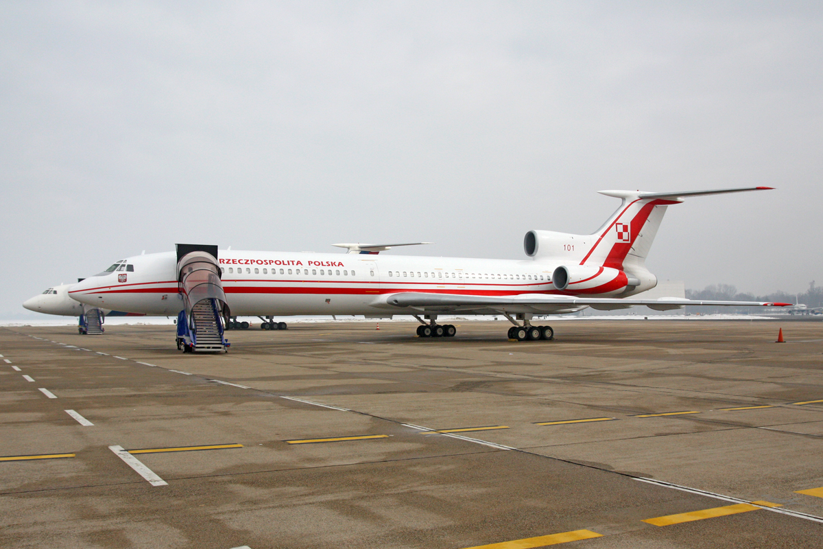 Tupolev Tu-154M of the Polish 36th Special Aviation Regiment at Zagreb Airport, during Polish President Kaczyński's visit to Croatia in 2010. On 10 April 2010, this Tupolev carrying the President of Poland Lech Kaczyński, members of the Polish government and the country's legislative branch, as well as other Polish dignitaries, crashed next to Smolensk-North Airport, on the outskirts of the town of Pechorsk, just outside of Smolensk near Pechyorsk, Smolensk Oblast, Russia, killing all aboard. They were on their way to mark the 70th anniversary of the Katyn massacre.